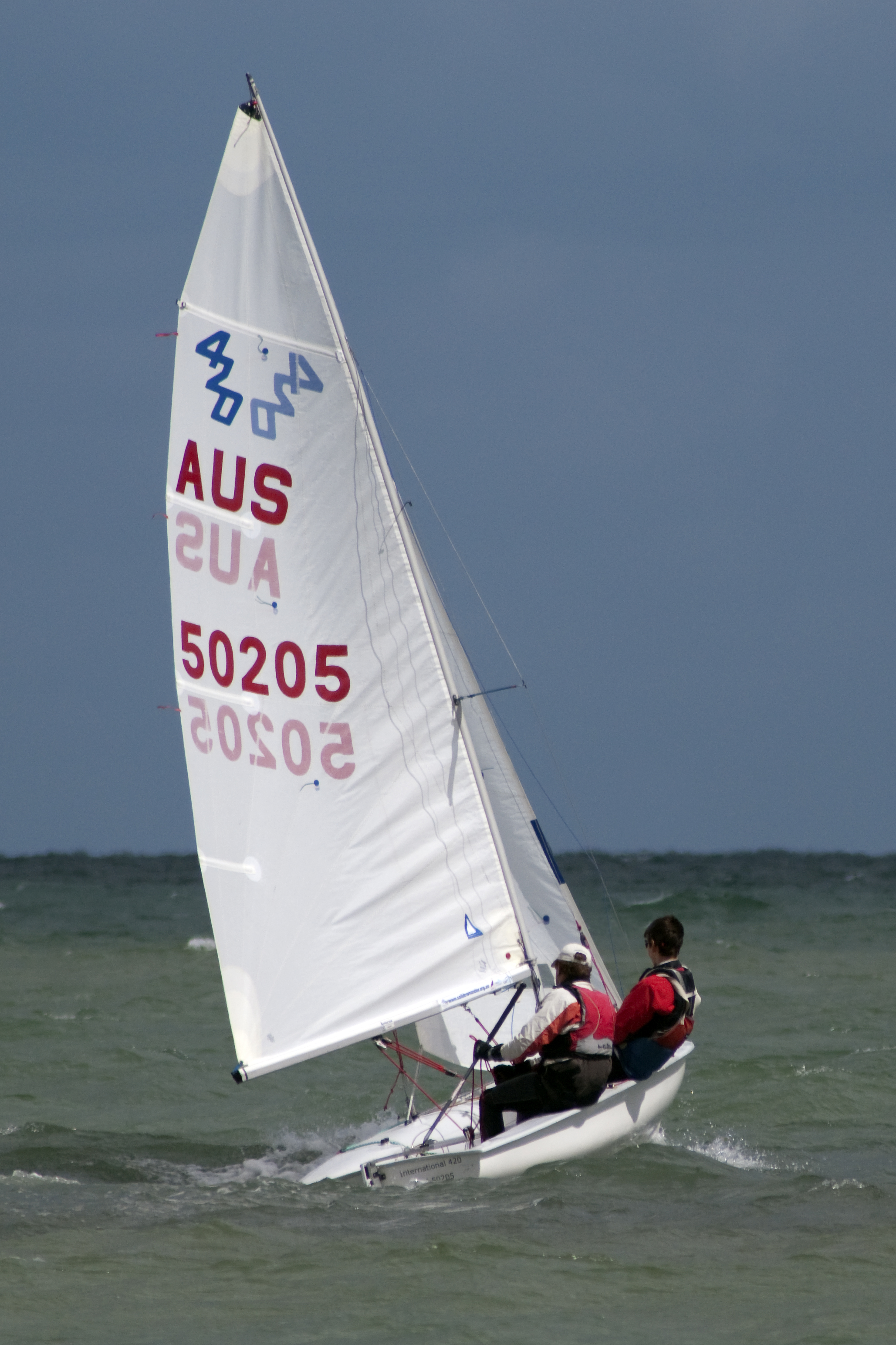 The 420 sailing dinghy, Mythologies, cresting a wave as she heads out from the shore at the Brighton Seacliff yacht Cub at Brighton, South Australia.